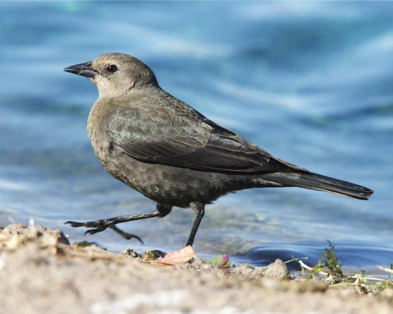 Brewer's Blackbird - female Euphagus cyanocephalus Las Vegas suburb, Nevada, USA November 8th.2010 690V4569